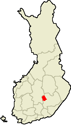 own work